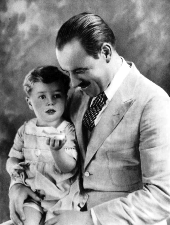 Actor Jack Holt and his son Jack, Jr. (Tim Holt), on page 51 of the December 1921 Photoplay.